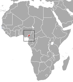 Oku Mouse Shrew (Myosorex okuensis) range